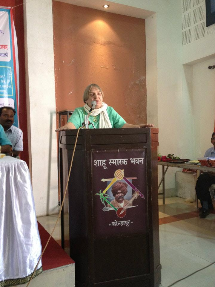 Gail at Shahu Smarakr